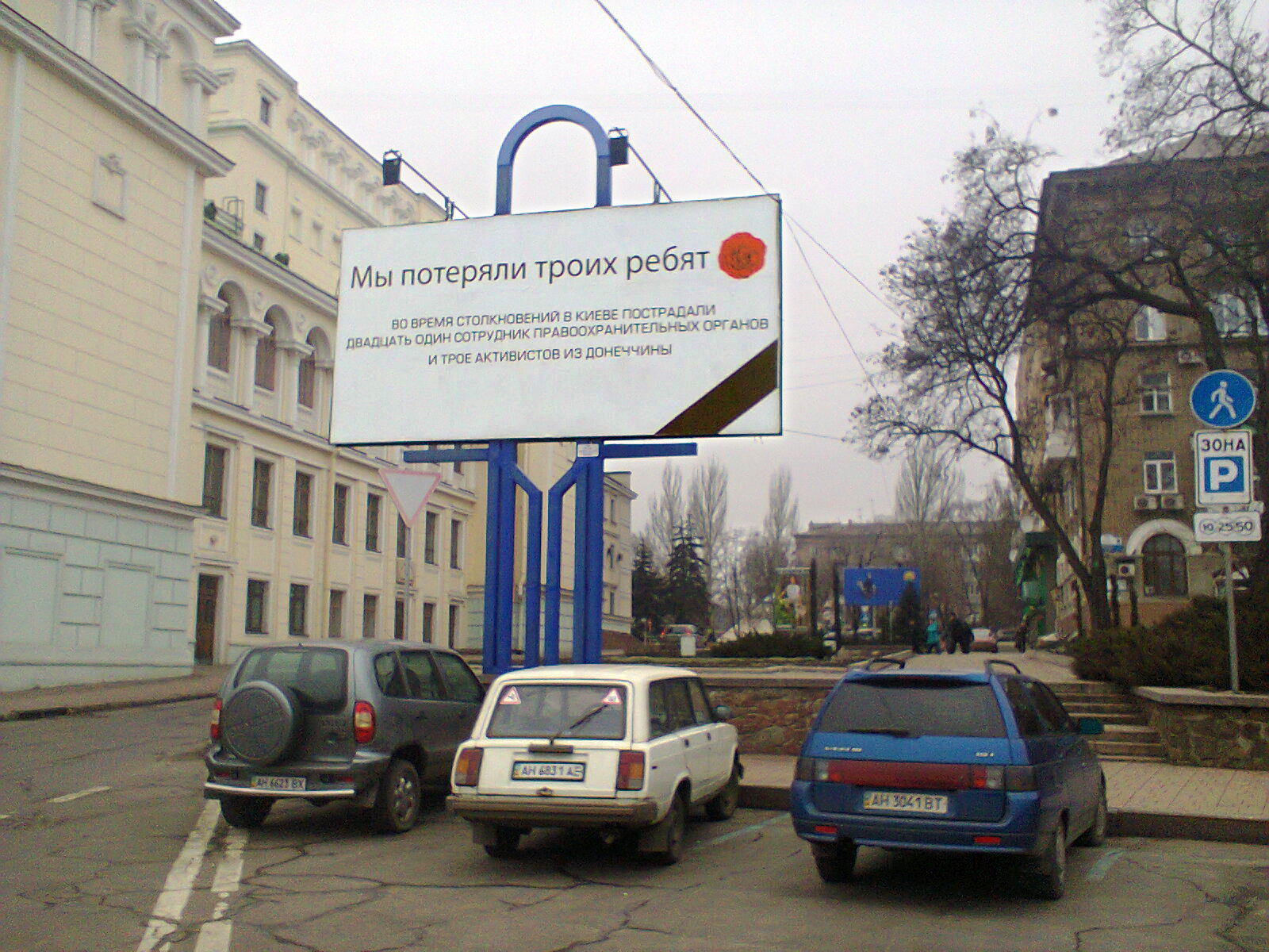 1 March 2014. Mourning billboard in memory of victims of Euromaidan in Donetsk.